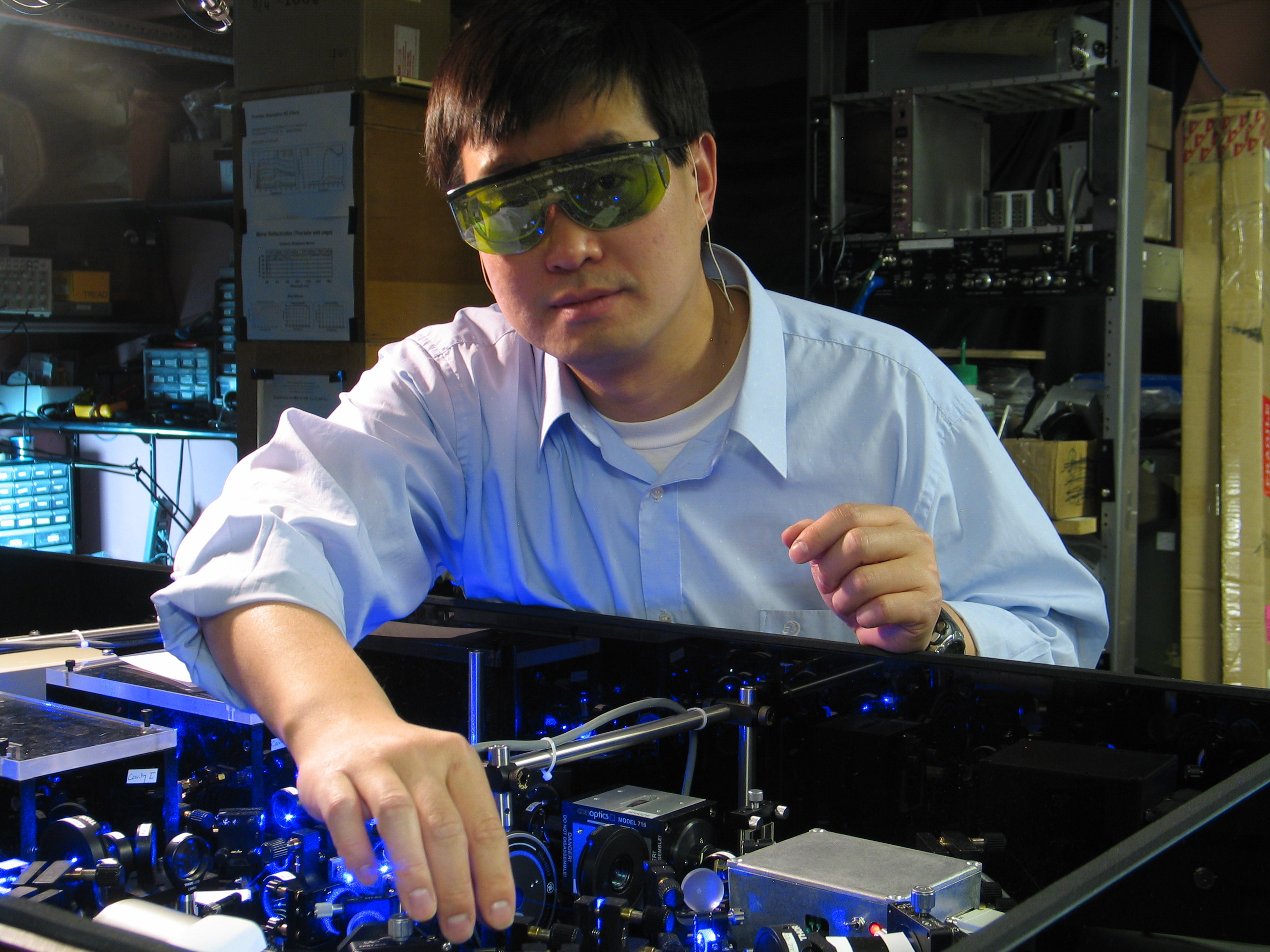 NIST physicist Jun Ye adjusts the laser setup for a strontium atomic clock in his laboratory at JILA, a joint institute of NIST and the University of Colorado at Boulder. Credit: J. Burrus/NIST Disclaimer: Any mention of commercial products within NIST web pages is for information only; it does not imply recommendation or endorsement by NIST. Use of NIST Information: These World Wide Web pages are provided as a public service by the National Institute of Standards and Technology (NIST). With the exception of material marked as copyrighted, information presented on these pages is considered public information and may be distributed or copied. Use of appropriate byline/photo/image credits is requested.